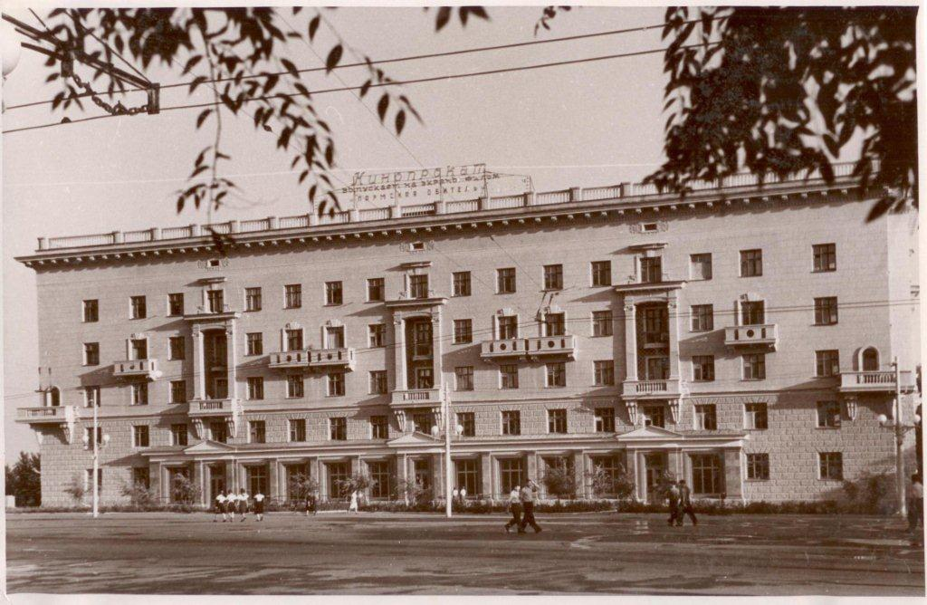 Architect Eberg Lev